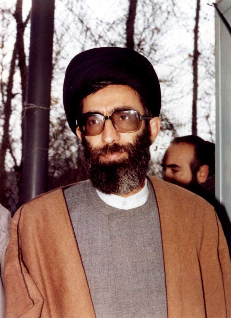 Ali Khamenei (1979), picture taken in November 1979